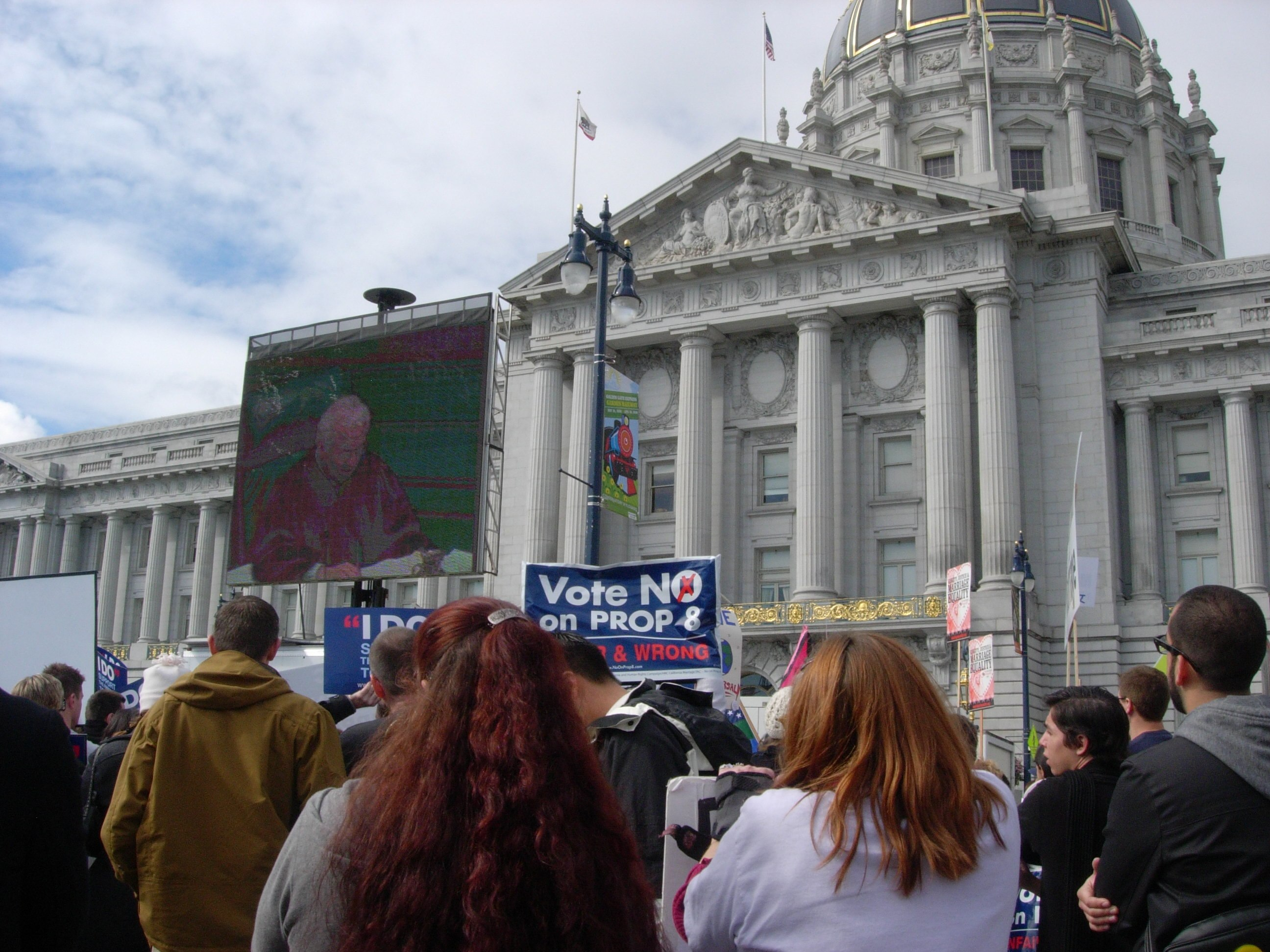 A crowd of people gather in front of the California Supreme Court headquarters in San Francisco to watch the Proposition 8 court proceedings on the jumbo screen.